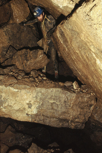 St Cuthberts Swallet